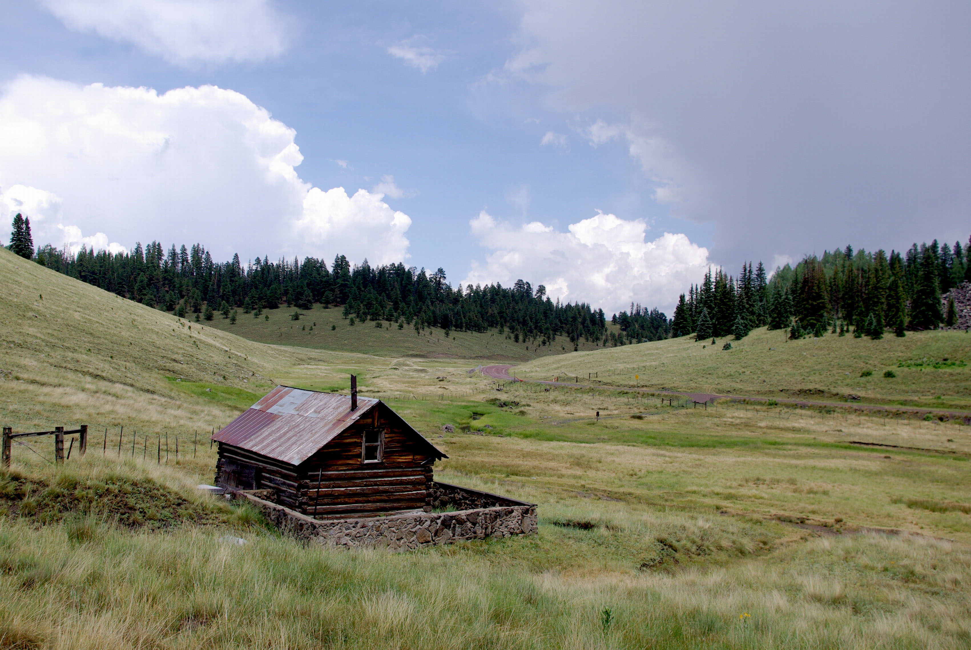 Meadow & cabin near Big Lake. We went camping and hiking in the White Mountains in northern Arizona in the Apache-Sitgreaves National Forest near Big Lake and Mount Baldy. Eric went trout fishing on the Little Colorado River and the West Fork of the Black River. We saw great beauty. "Most, the overwhelming majority, seem condemned to the role of spectators, servitors, dependent consumers. One exception remains to the iron rule of oligarchy. At least in America one relic of our ancient and rightful liberty has survived. And that is - a walk into the woods; a journey on foot into the uninhabited interior; a voyage down the river of no return. Hunters, fishermen, hikers, climbers, white-water boatmen, red-rock explorers know what I mean. In America at least this category of experience remains open and available to all, democratic. It is my fear that if we allow the freedom of the hills and the last of the wilderness to be taken from us, then the very idea of freedom may die with it." Edward Abbey, from Down the River (with Henry) Arizona Passages